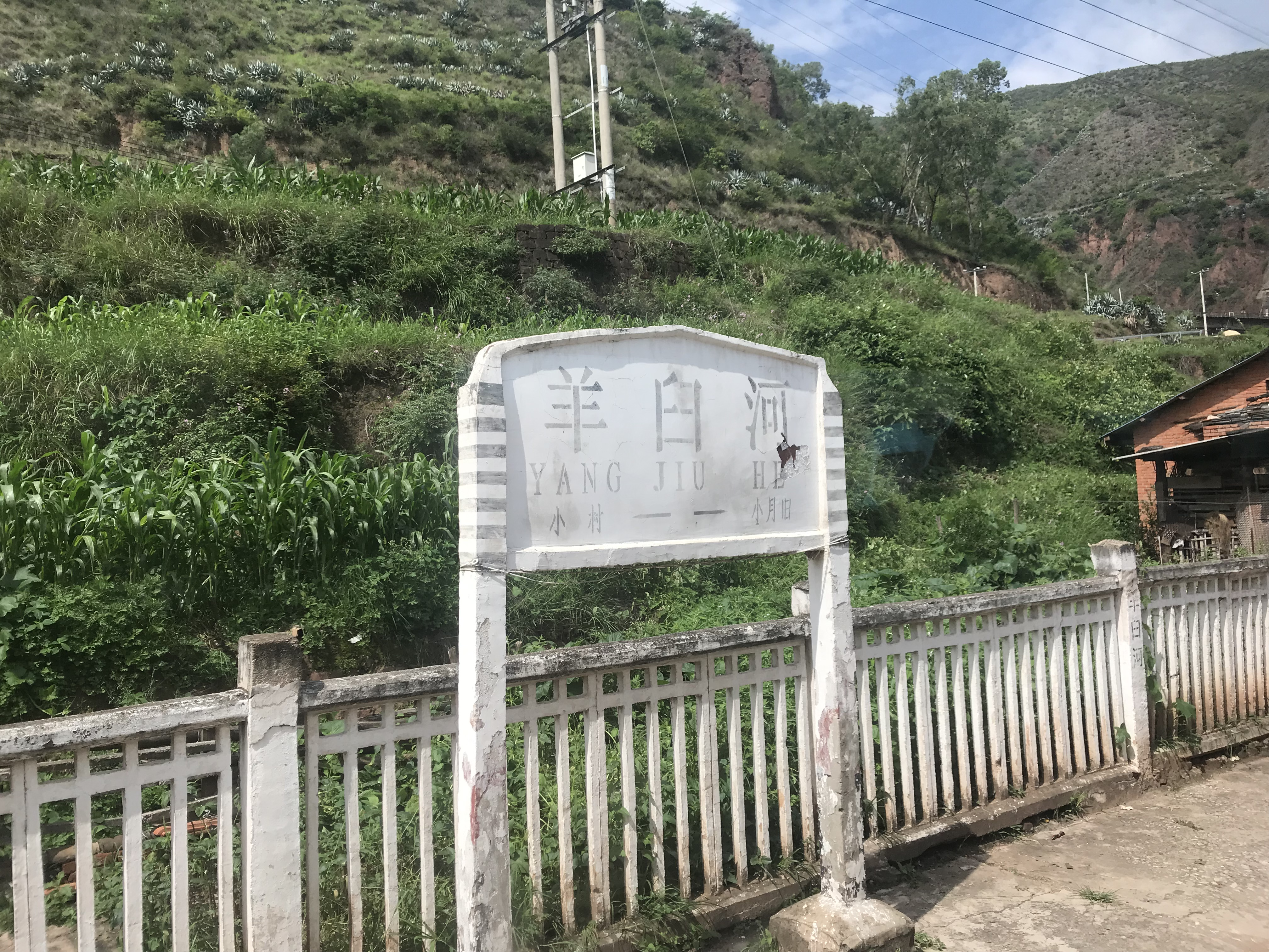 201908 Nameboard of Yangjiuhe Station